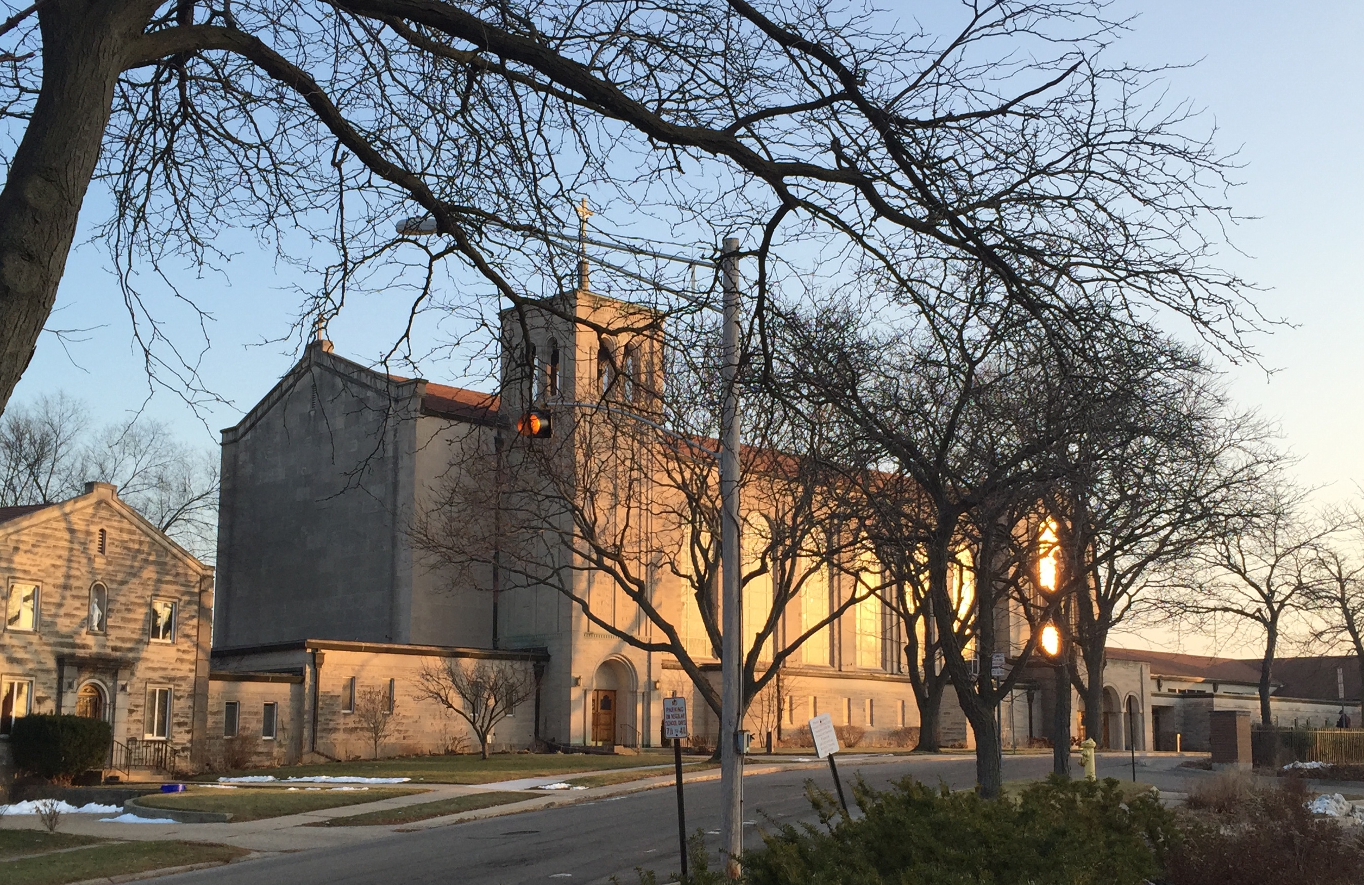 St Peter's Cathedral is seen from Church St, on Rockford's northwest side